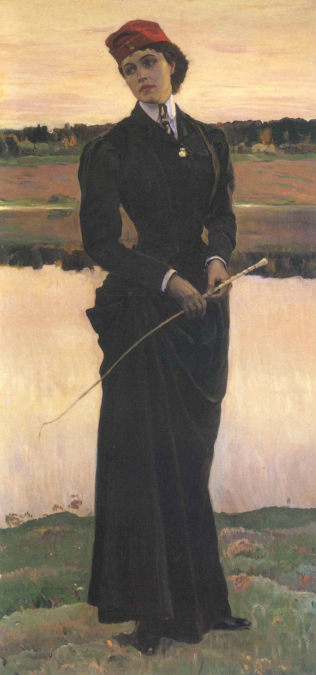 "Portrait of Olga Nesterova" ((1862-1886) the first wife of the artist), known as "Woman in a Riding Habit" - Oil on canvas.